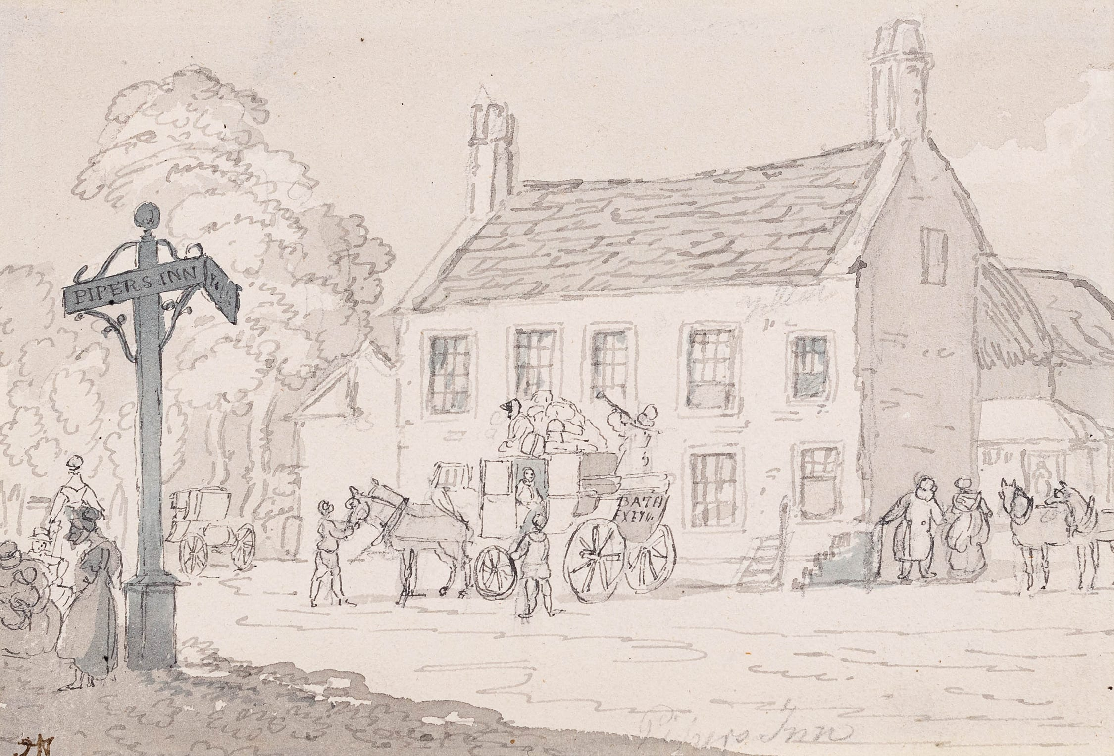 Offered for sale by Abbott and Holder in March 2020 when it was described as "The Bath to Exeter coach at ‘The Piper’s Inn’ Ashcott, Somerset. Pen, brush and ink. 1794. Inscribed and ?signed with initials. Provenance: French Hospital de la Providence, Rochester. 4.5x6.5 inches."